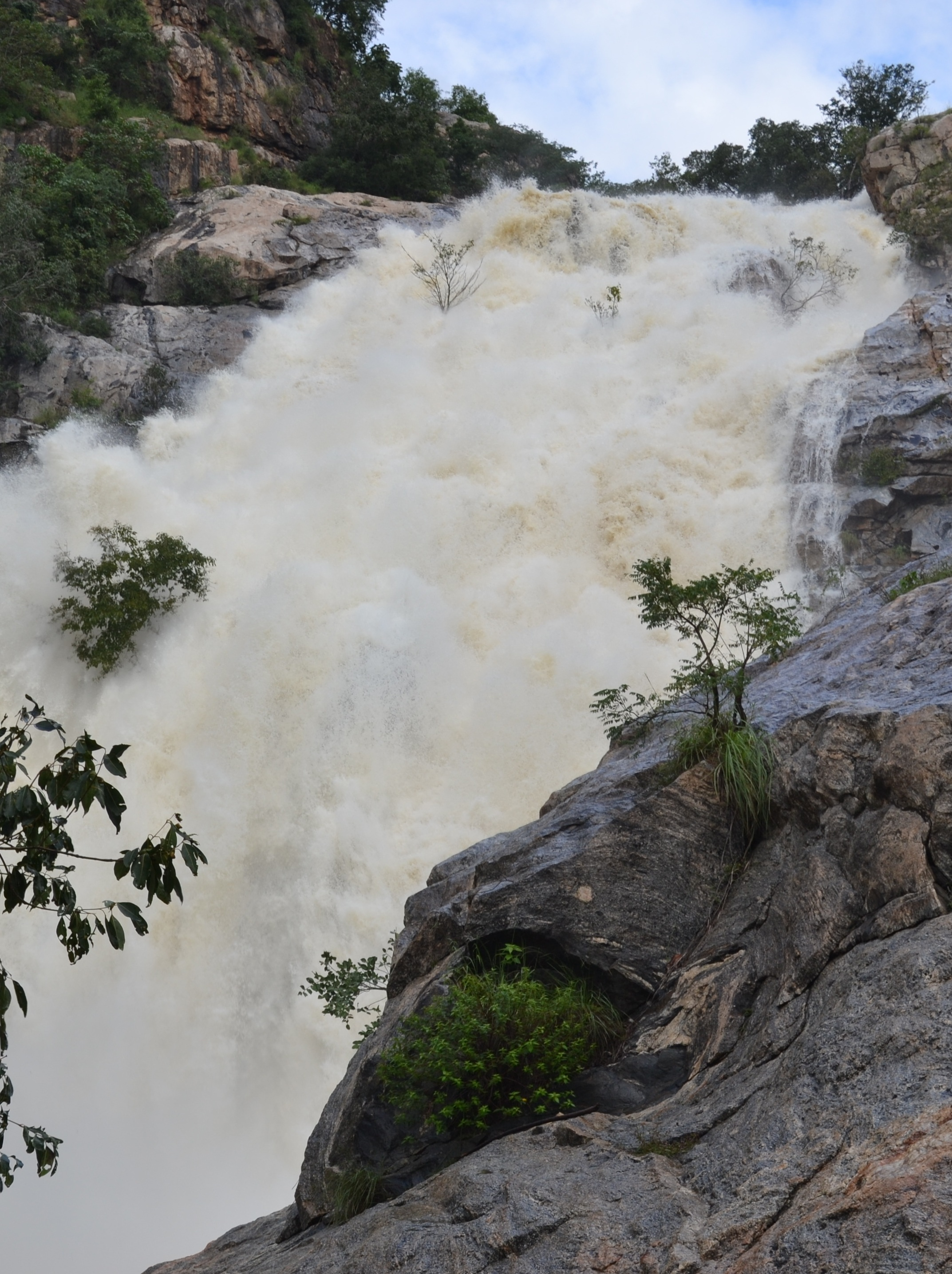 1000 ft waterfalls